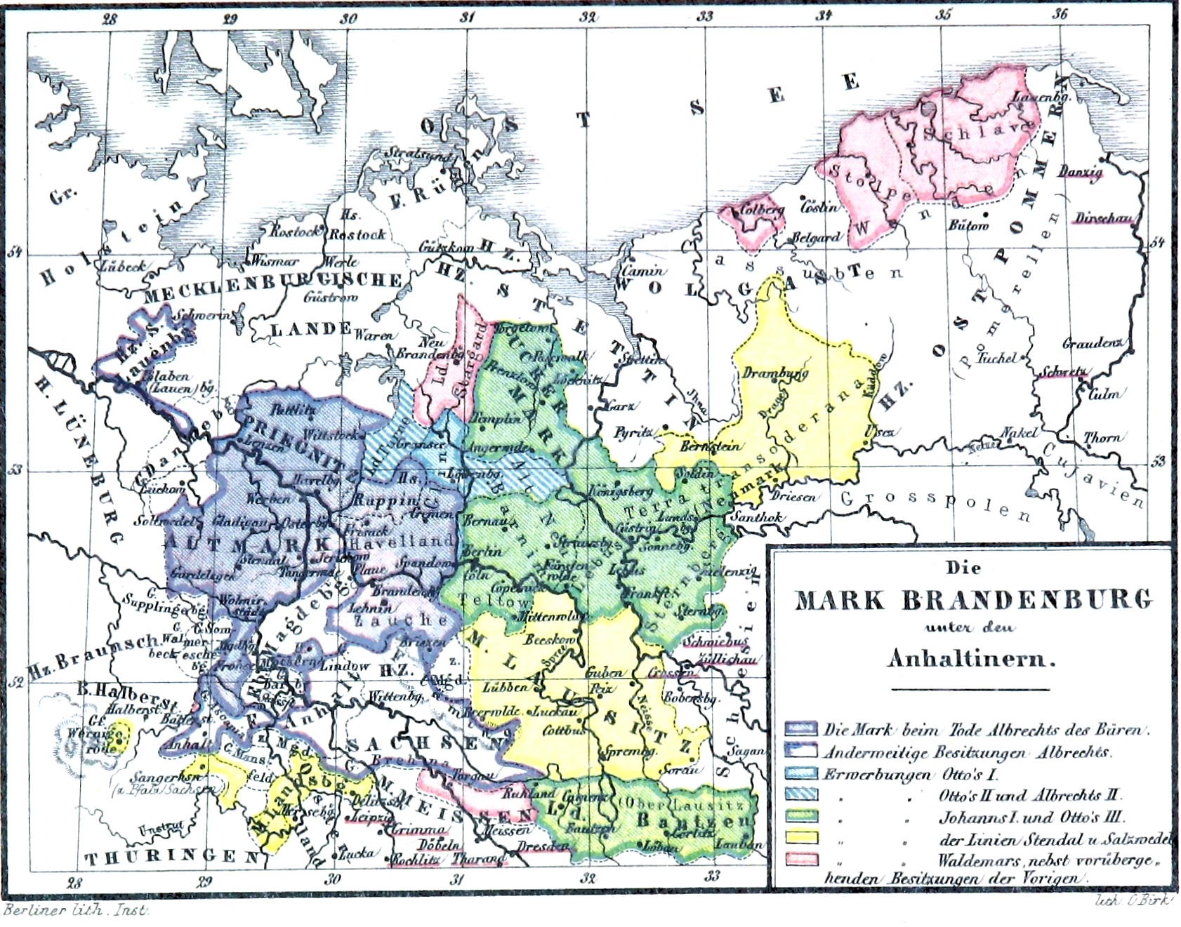 Image extracted from page 39 of Die Territorialgeschichte des brandenburgisch preussischen Staates, im Auschluss an zehn historische Karten übersichtlich dargestellt, Fix W. Original held and digitised by the British Library. Note: The colours, contrast and appearance of these illustrations are unlikely to be true to life. They are derived from scanned images that have been enhanced for machine interpretation and have been altered from their originals.